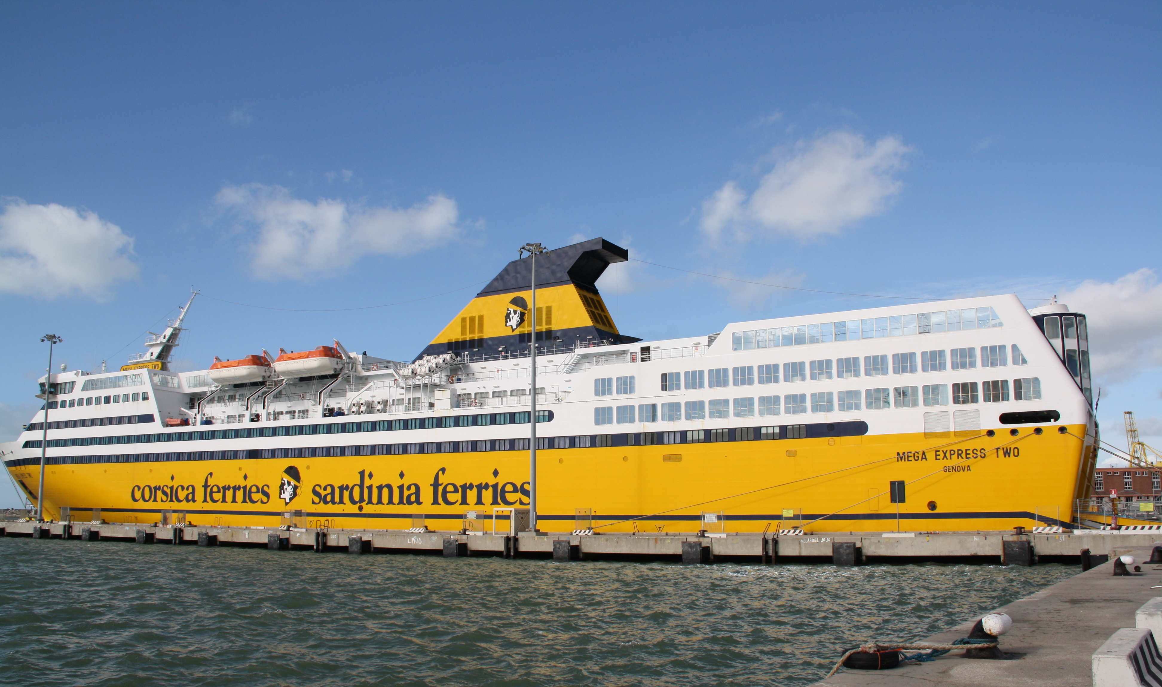 Italy, Port of Livorno. The Corsica Ferries ship Mega Express Two (Corsica Services) berthed at “Andana degli Anelli” of “Molo Mediceo”.